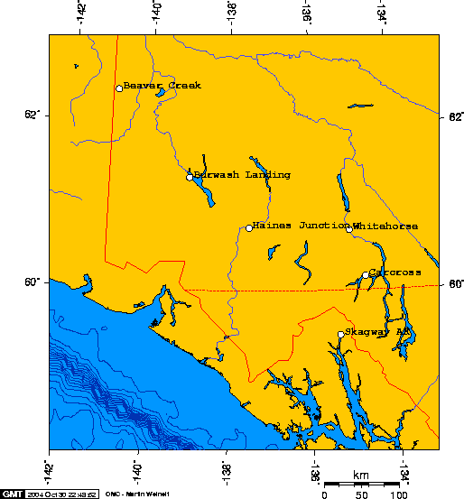 Southern Yukon, including Kluane Park and the Alaska highway